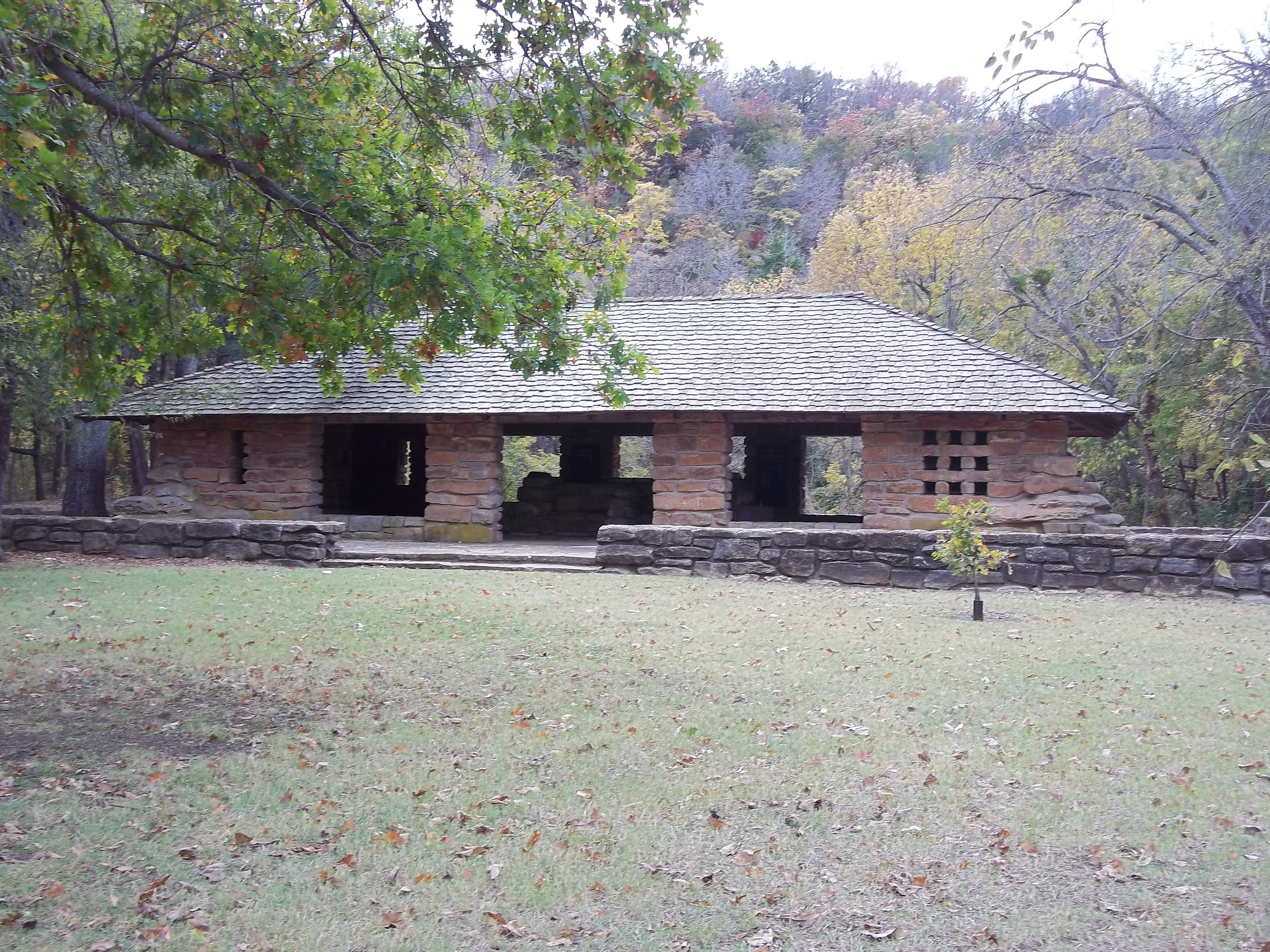 Bromide Pavilion located within Chickasaw National Recreation Area